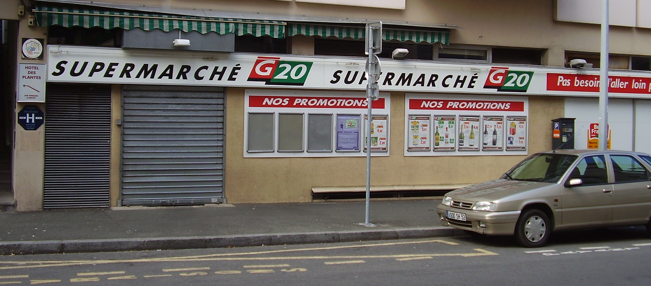 G20 store - Angers